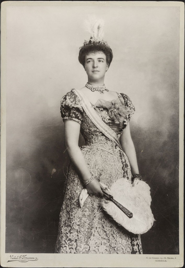 Amélie d’Orléans, Königin von Portugal